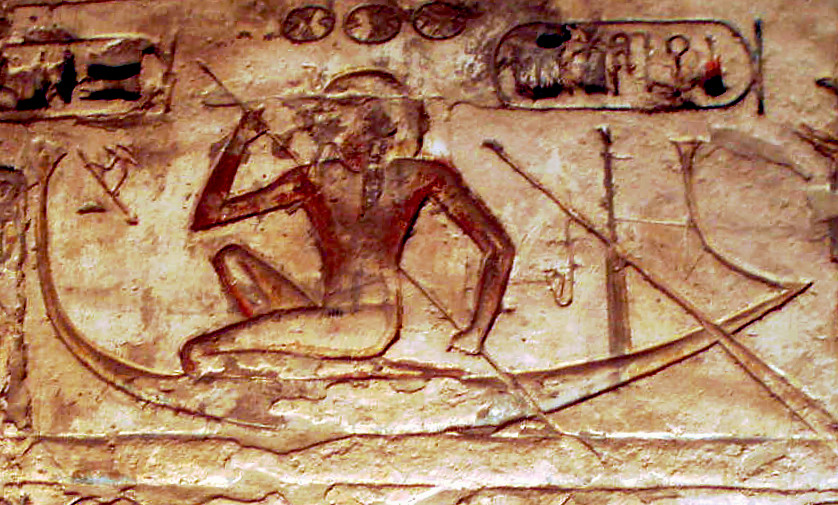 A relief from the temple of Medinet Habu.